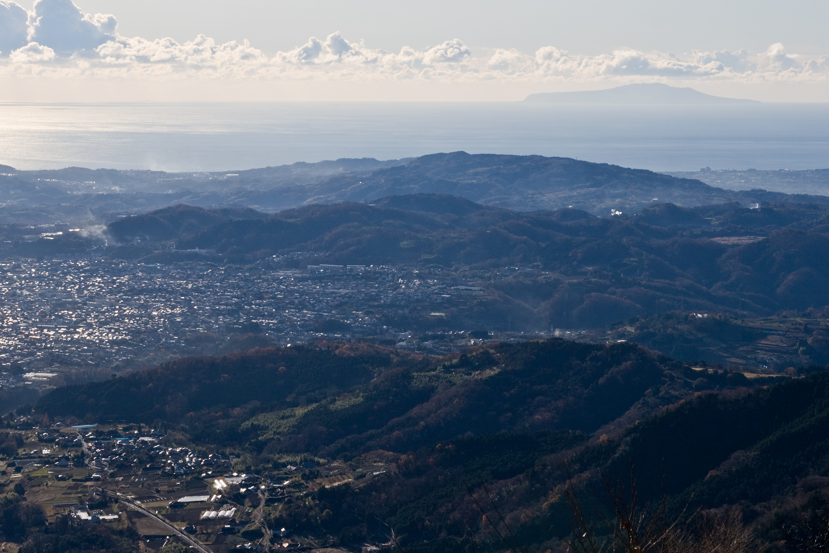 Oiso hills as seen from Mt.Kunugi, Hadano, Kanagawa, Japan.